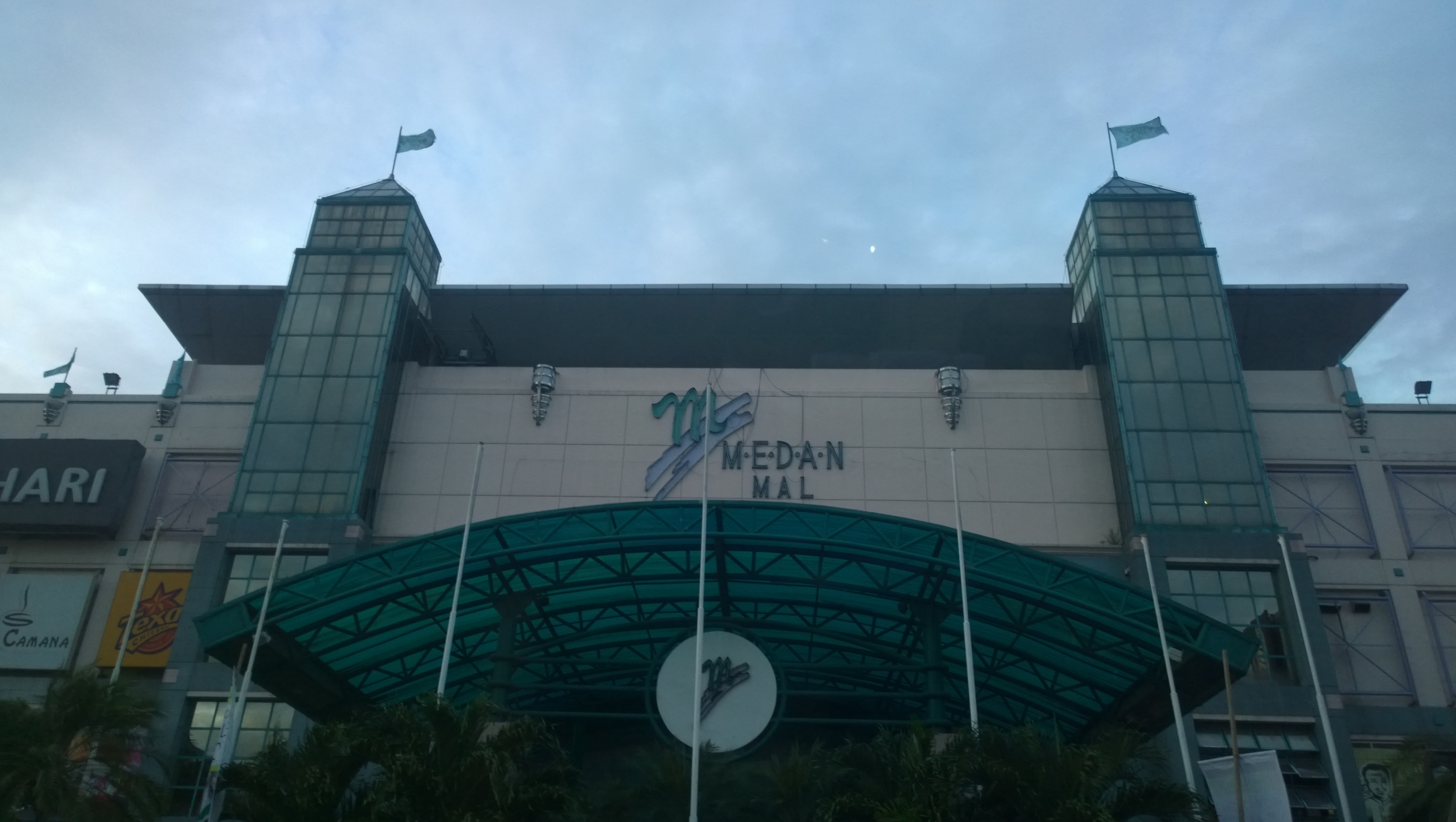 Front exterior view of Medan Mall